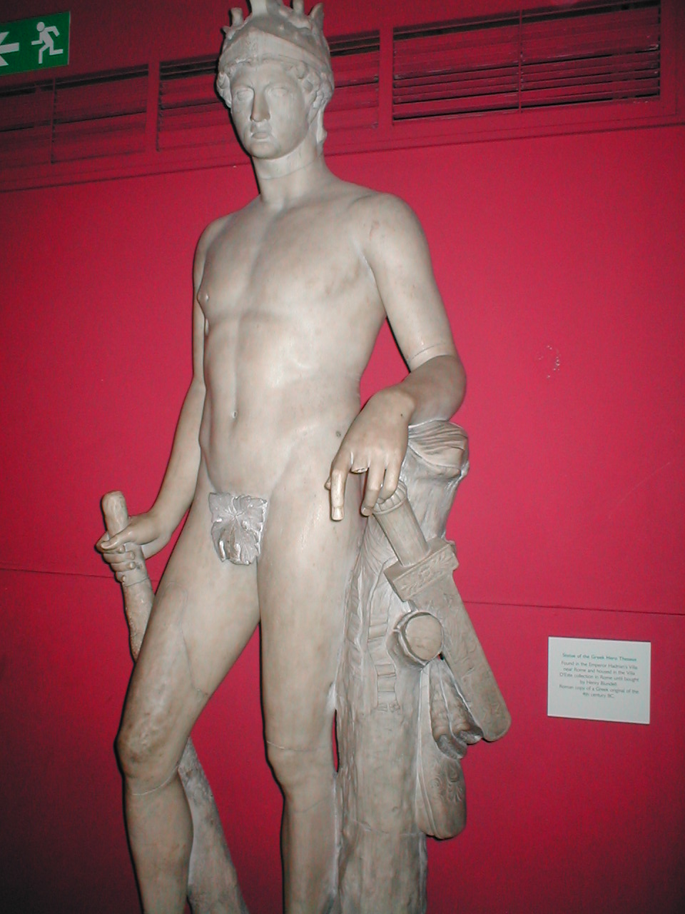 Statue of the Greek hero Theseus, located in the World Museum Liverpool